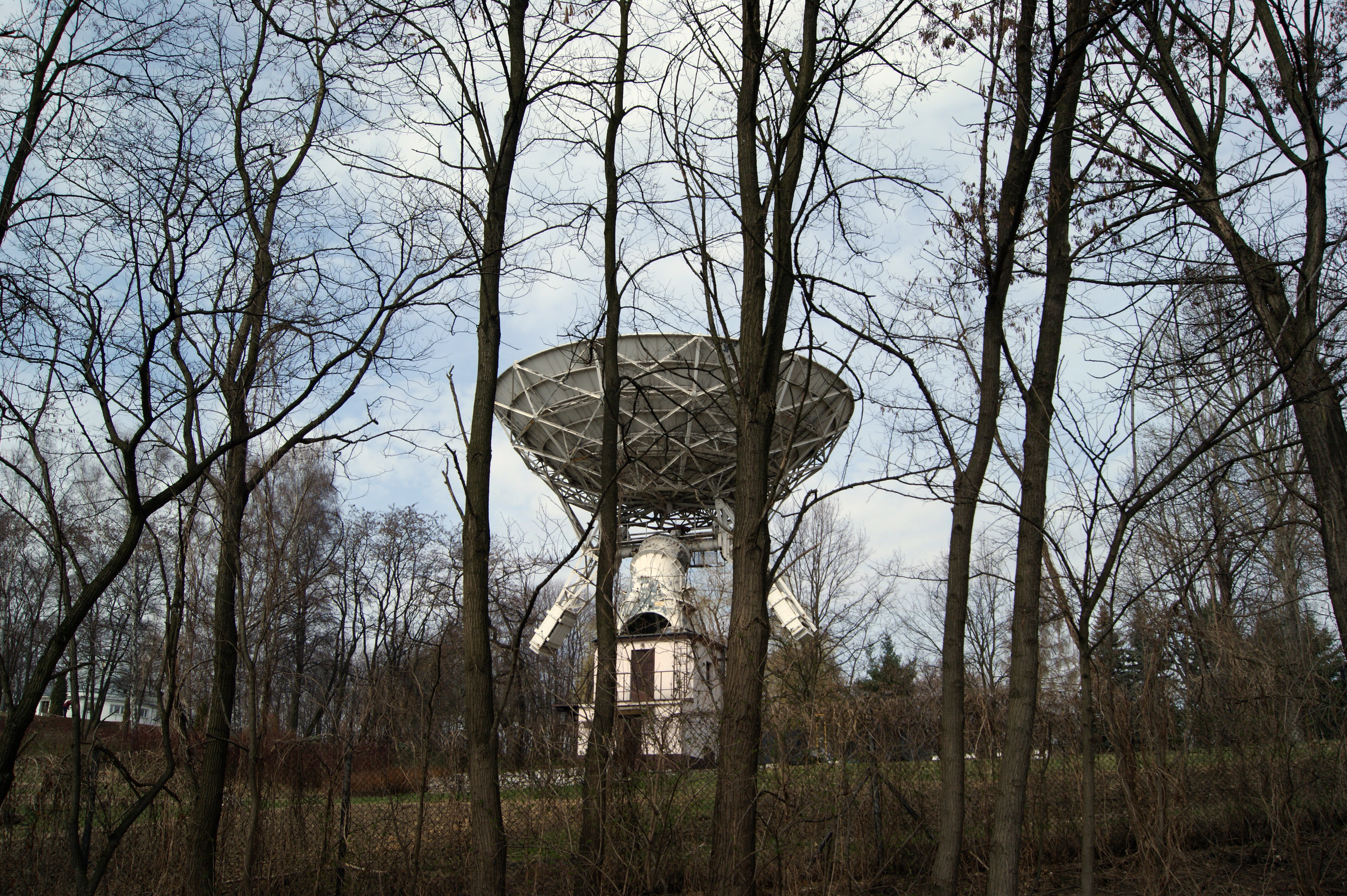 Jagiellonian University, Astronomical Observatory, Radio telescope RT-15, 171 Orla street, Krakow, Poland